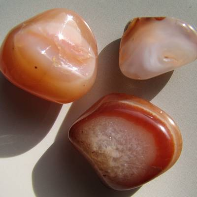 tumbled agates from the north-central USA